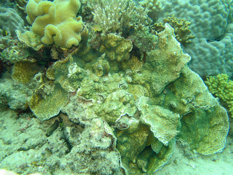 Encrusting colony of Echinopora mammiformis about 80 cm wide at Lizard Island